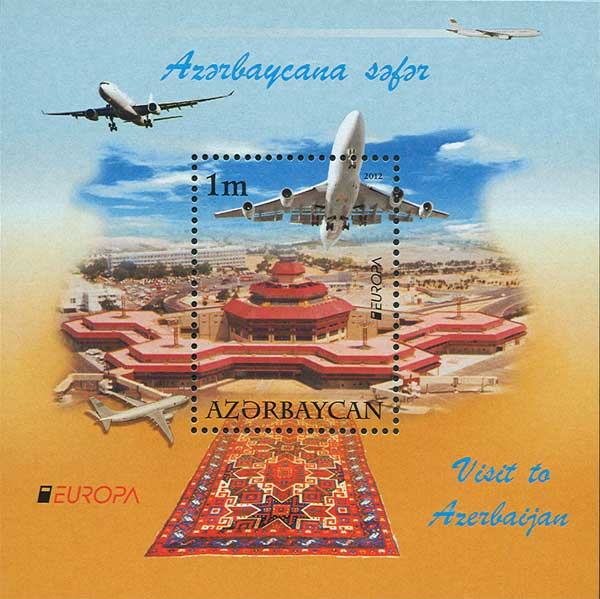 Europe 2012. Visit to Azerbaijan.